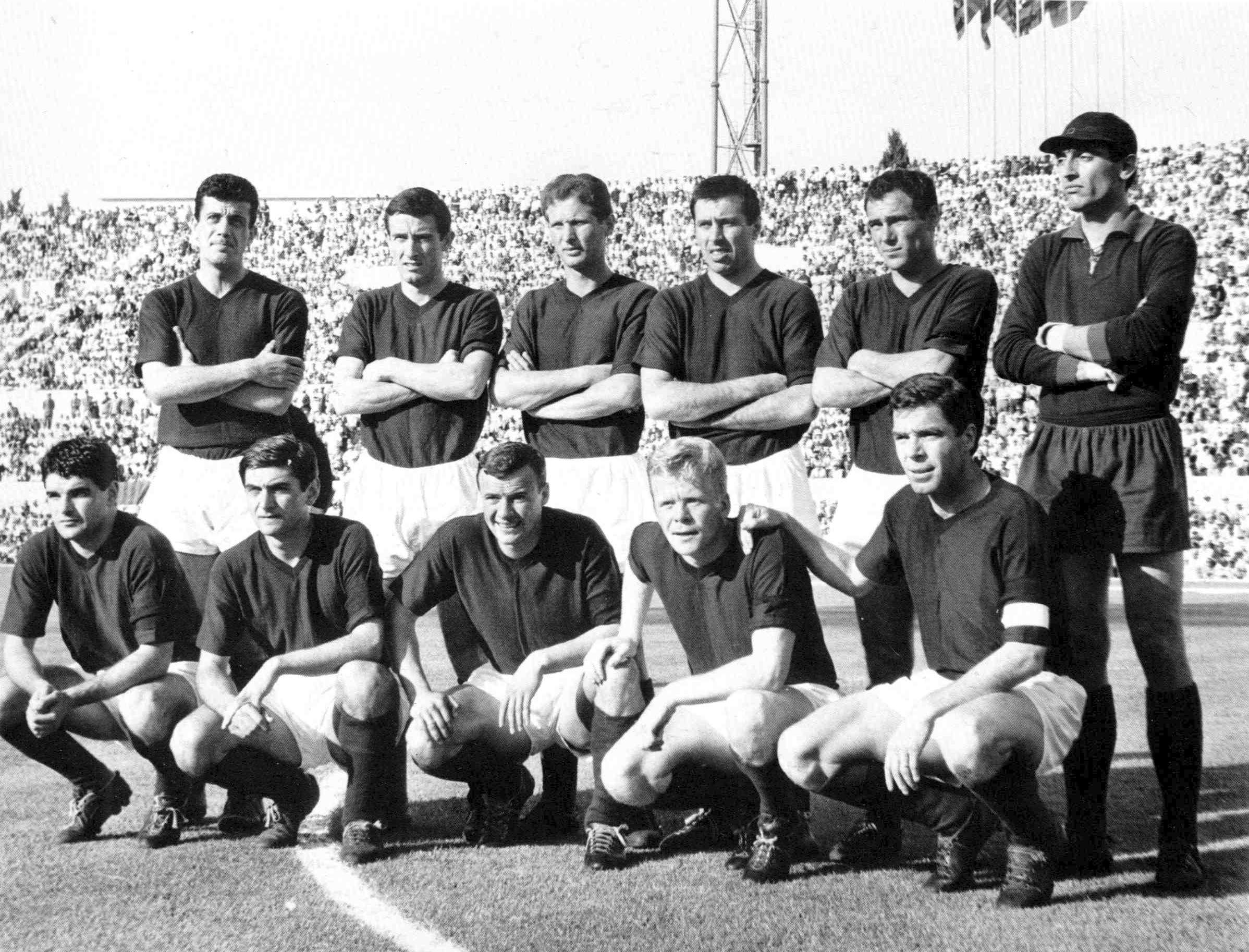 Rome (Italy), Olympic Stadium, June 7, 1964. A line-up of Bologna F.C. took to the pitch in the victorious Scudetto's tie-breaker versus F.C. Internazionale (2-0), Italian League 1963–64 Serie A. From left to right, standing: F. Janich, R. Fogli, C. Furlanis, P. Tumburus, B. Capra, W. Negri; crouched: M. Perani, G. Bulgarelli, H. Nielsen, H. Haller, M. Pavinato (captain).